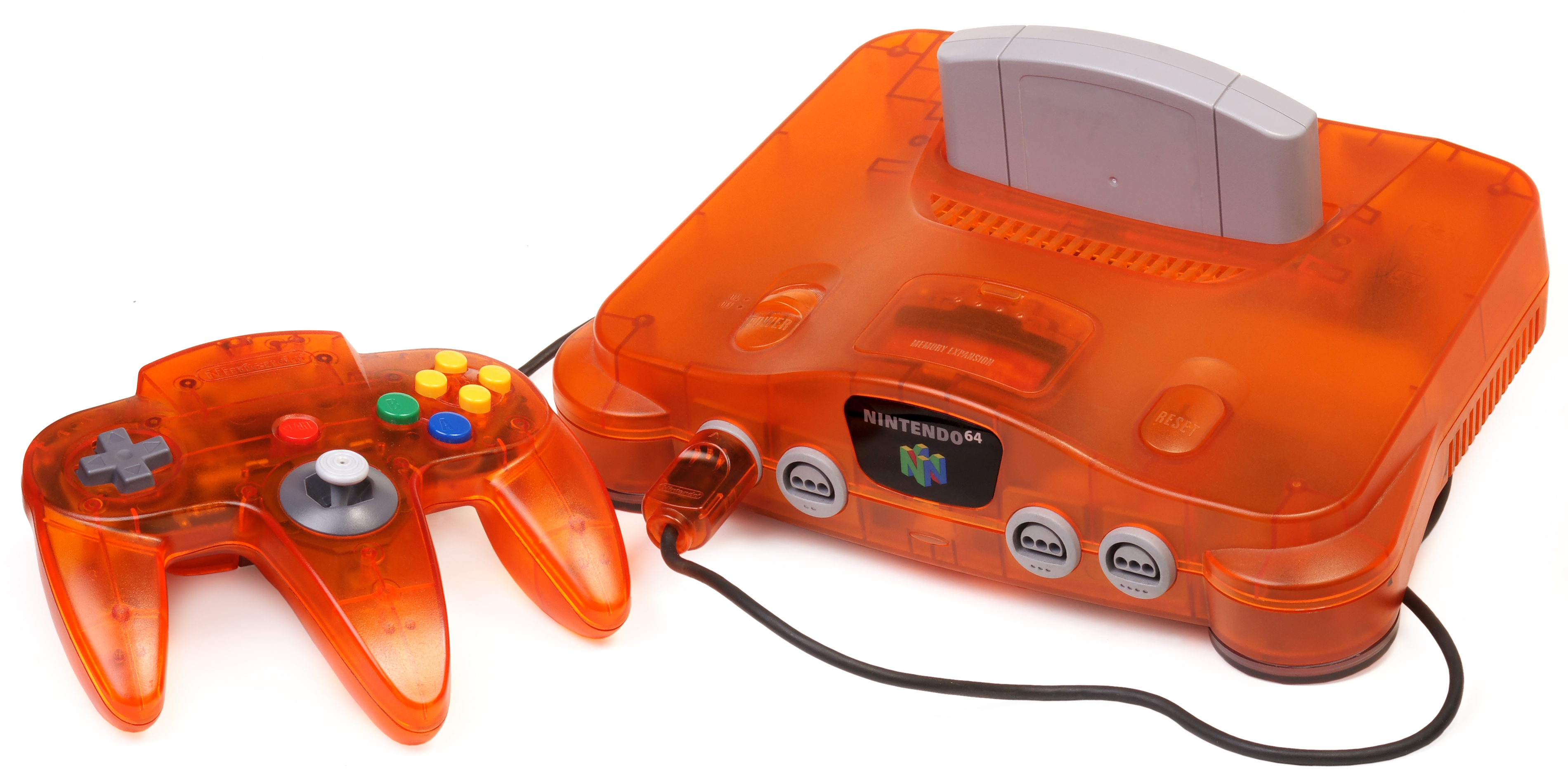 A Fire Orange N64, part of its Funtastic Series. Shown with matching controller and dummy cartridge.